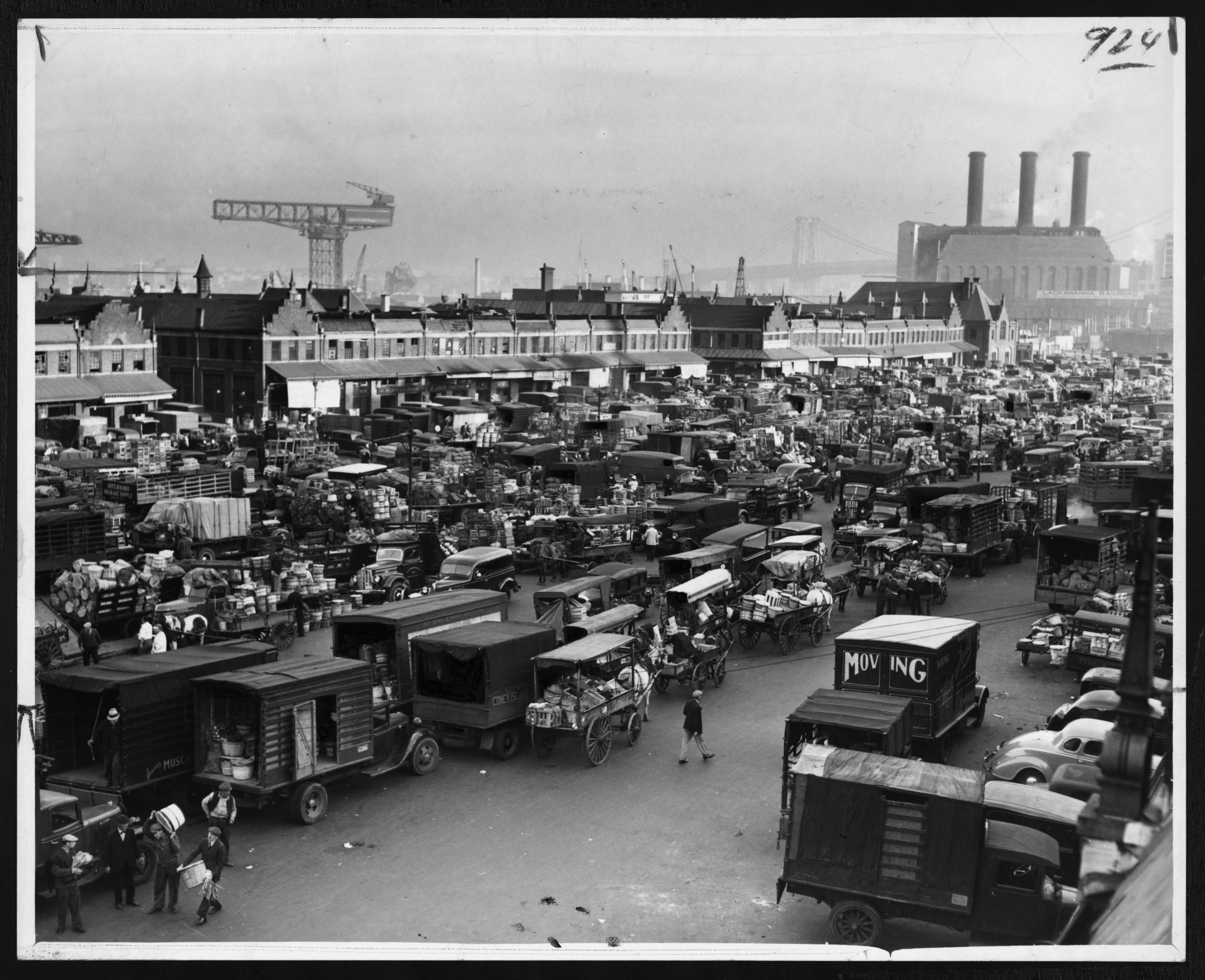 Wallabout Market in Brooklyn, NY in September 1940. Market established 1884, permanent buildings designed by William Tubby in Dutch Colonial style in 1894-1896. Located north of Flushing Avenue between Washington Avenue and Ryerson Street. Demolished in 1941 to build the Navy Yard during WWII. World Telegram & Sun photo by Al Aumuller.